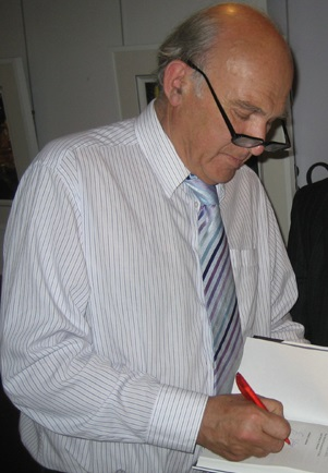 with Dr Vince Cable MP for Twickenham and Lib Dem Shadow Chancellor of the Exchequer